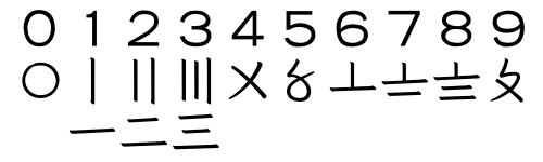 Image with Huāmǎ numerals from 1 to 9 (with vertical and horizontal versions - 4 variant not included)